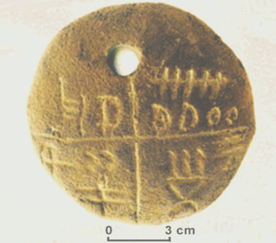 Neolithic tablet amulet, part of the Tărtăria tablets set, dated to 5500-5300 BC and associated with the Turdaş-Vinča culture. The Vinča symbols on it predate the proto-Sumerian pictographic script. Discovered in 1961 at Tărtăria, Alba County, Romania by the archaeologist Nicolae Vlassa.